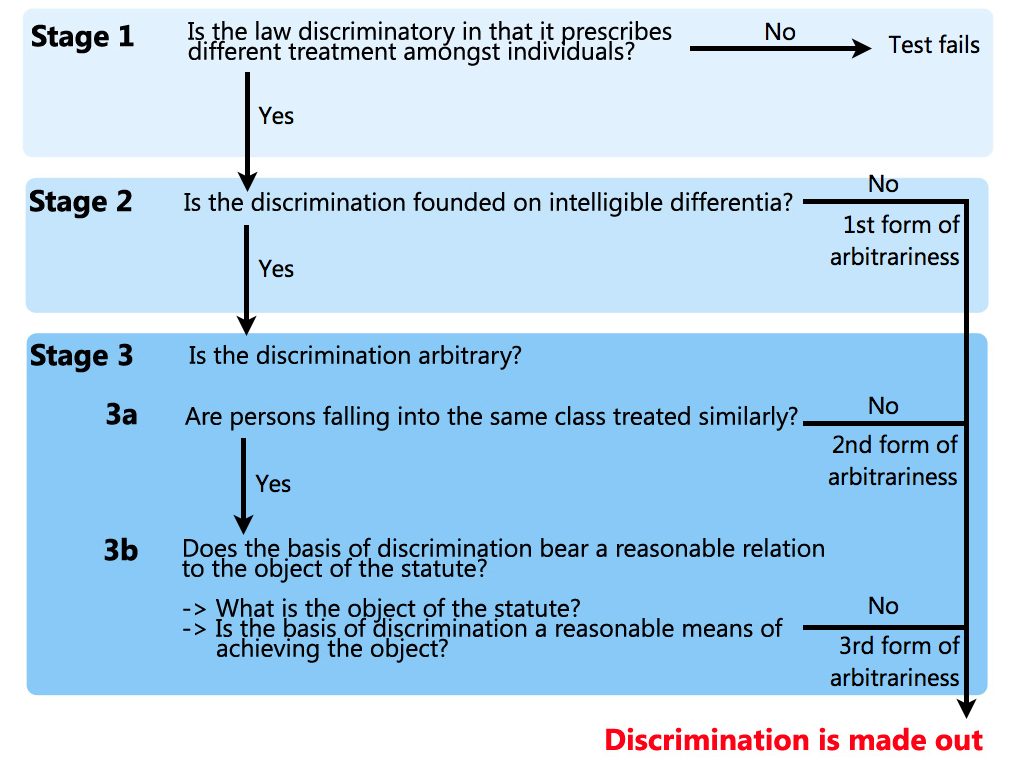 The rational nexus test applied to Article 12(1) of the Constitution of Singapore by the High Court case Taw Cheng Kong v. Public Prosecutor [1998] 1 S.L.R.(R.) [Singapore Law Reports (Reissue)] 78.